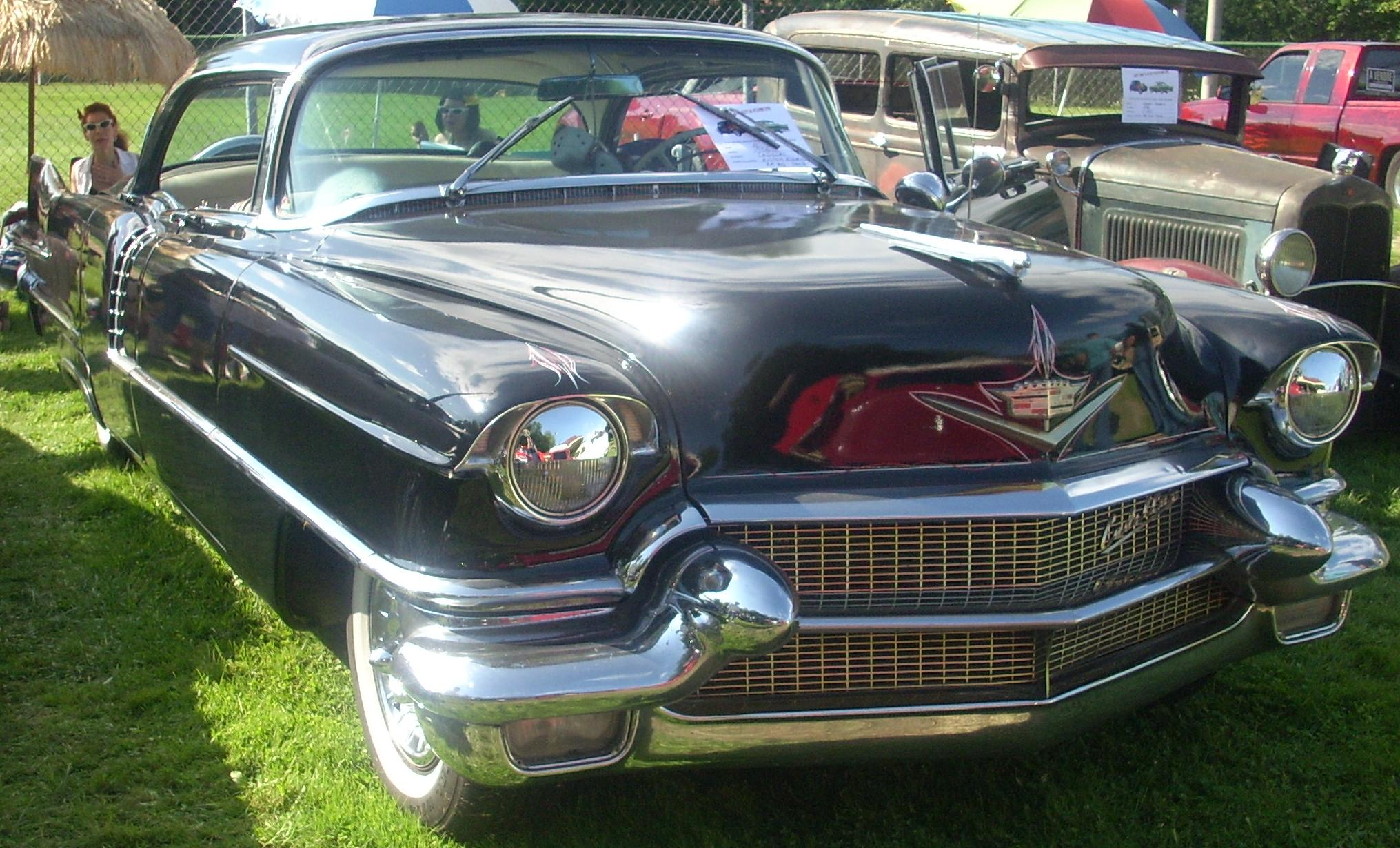 1956 Cadillac Eldorado photographed at the Rassemblement Rigaud Car Show.